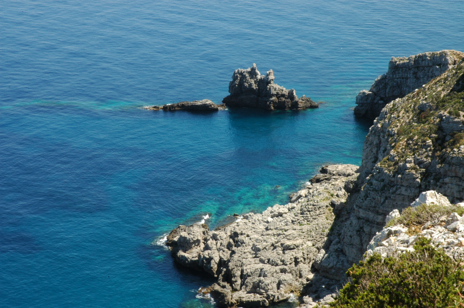 Scoglio Cammello, east of Marettimo, Egadian Islands, Italy